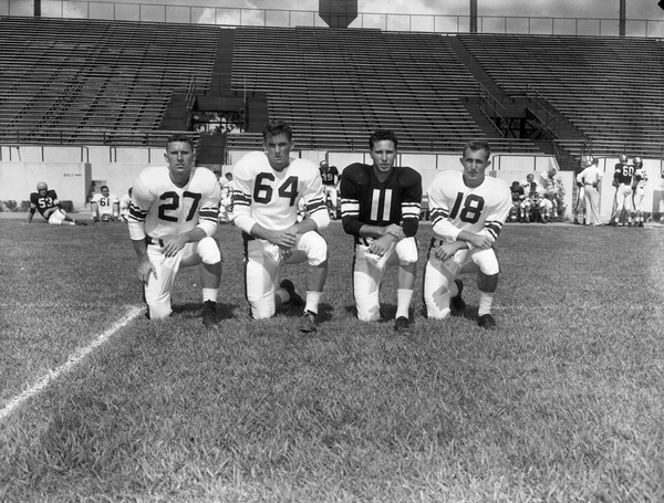 Persistent URL: Local call number: TD00074 Title: FSU football players in Tallahassee, Florida Date: ca. 1954 Physical descrip: 1 photonegative - b&w - 4 x 5 in. Series Title: Tallahassee Democrat Collection Repository: State Library and Archives of Florida 500 S. Bronough St., Tallahassee, FL, 32399-0250 USA, Contact: 850.245.6700